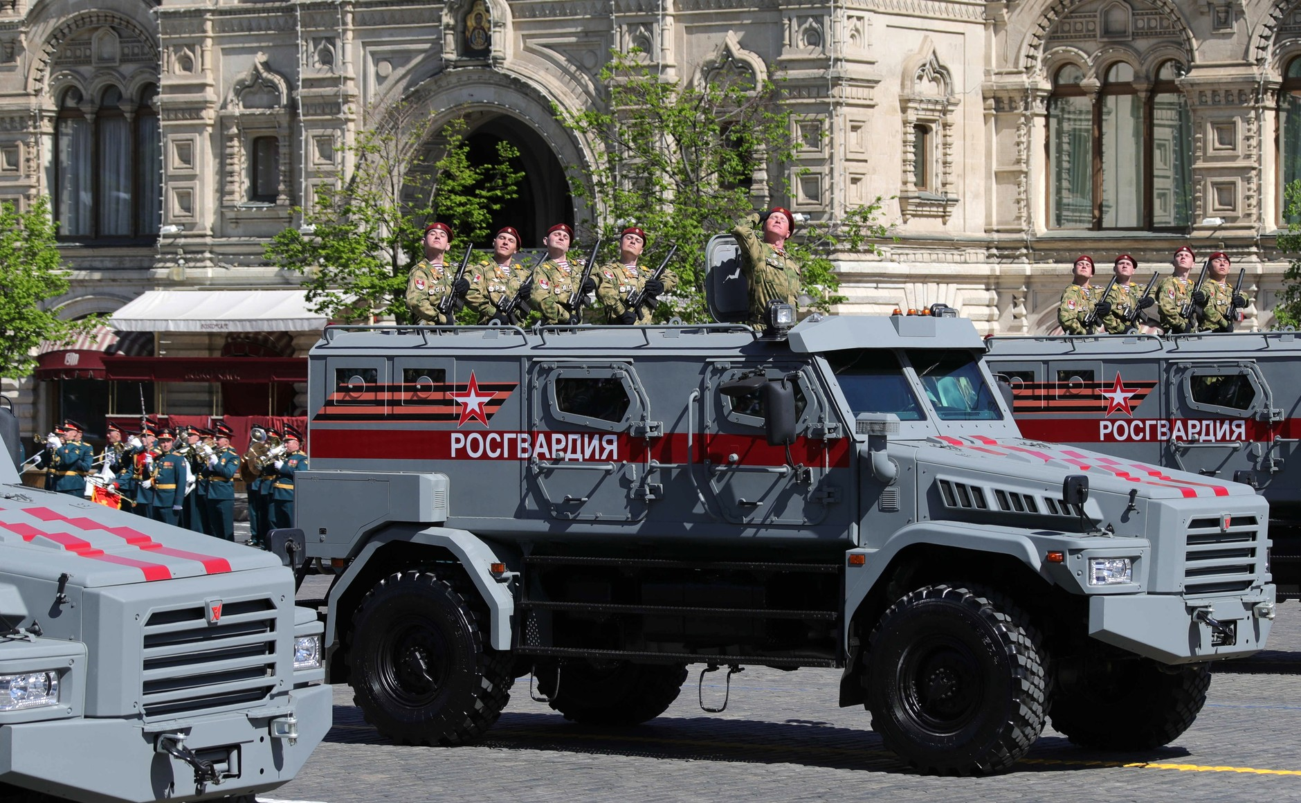 2018 Moscow Victory Day Parade